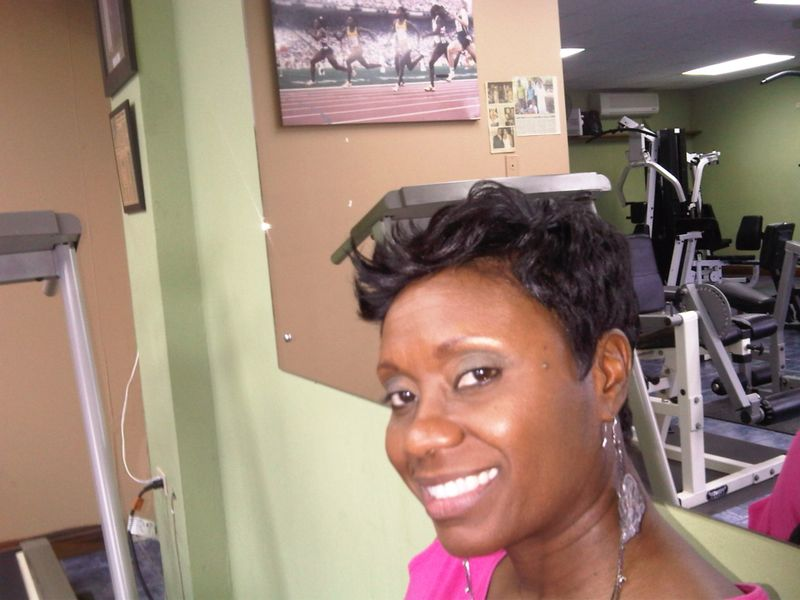 Photograph of Jamaican athlete Juliet Cuthbert